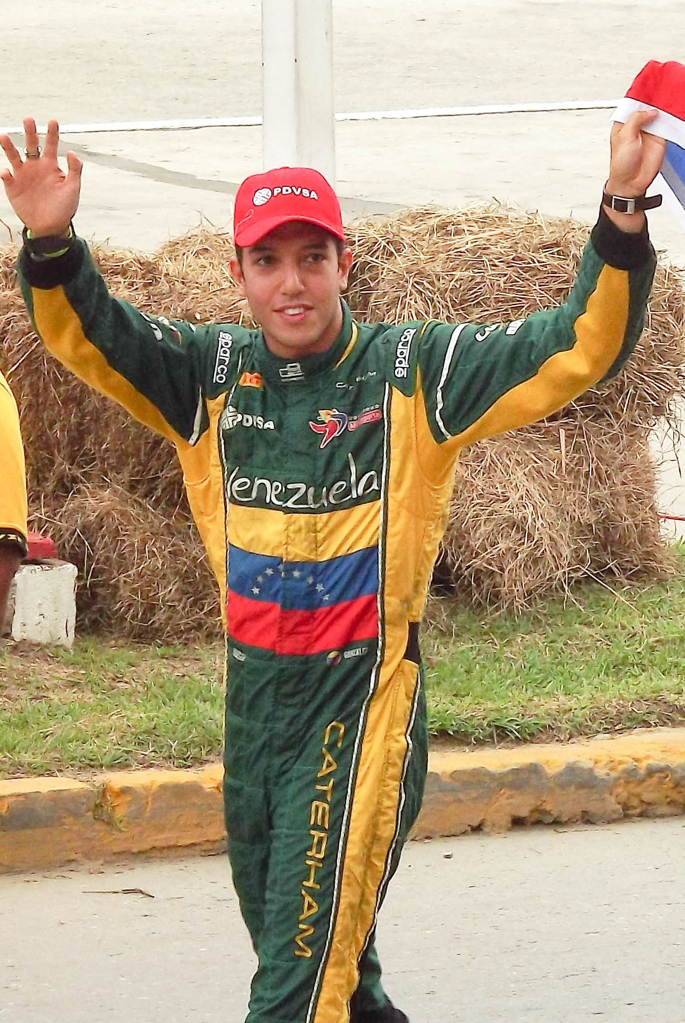 Racing driver Rodolfo González in Caracas, Venezuela.